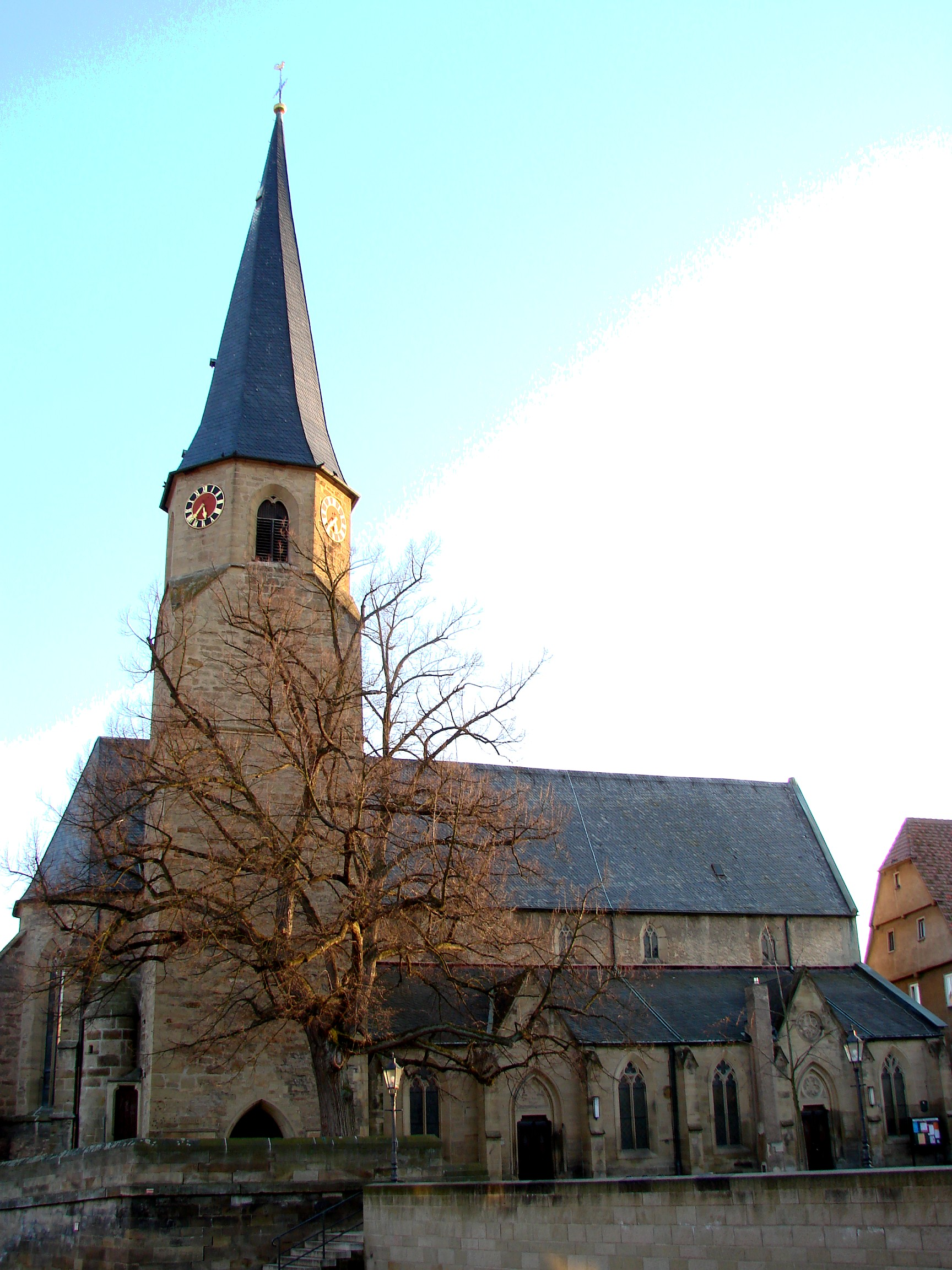 Bönnigheim, parish church St. Cyriakus, 12th century